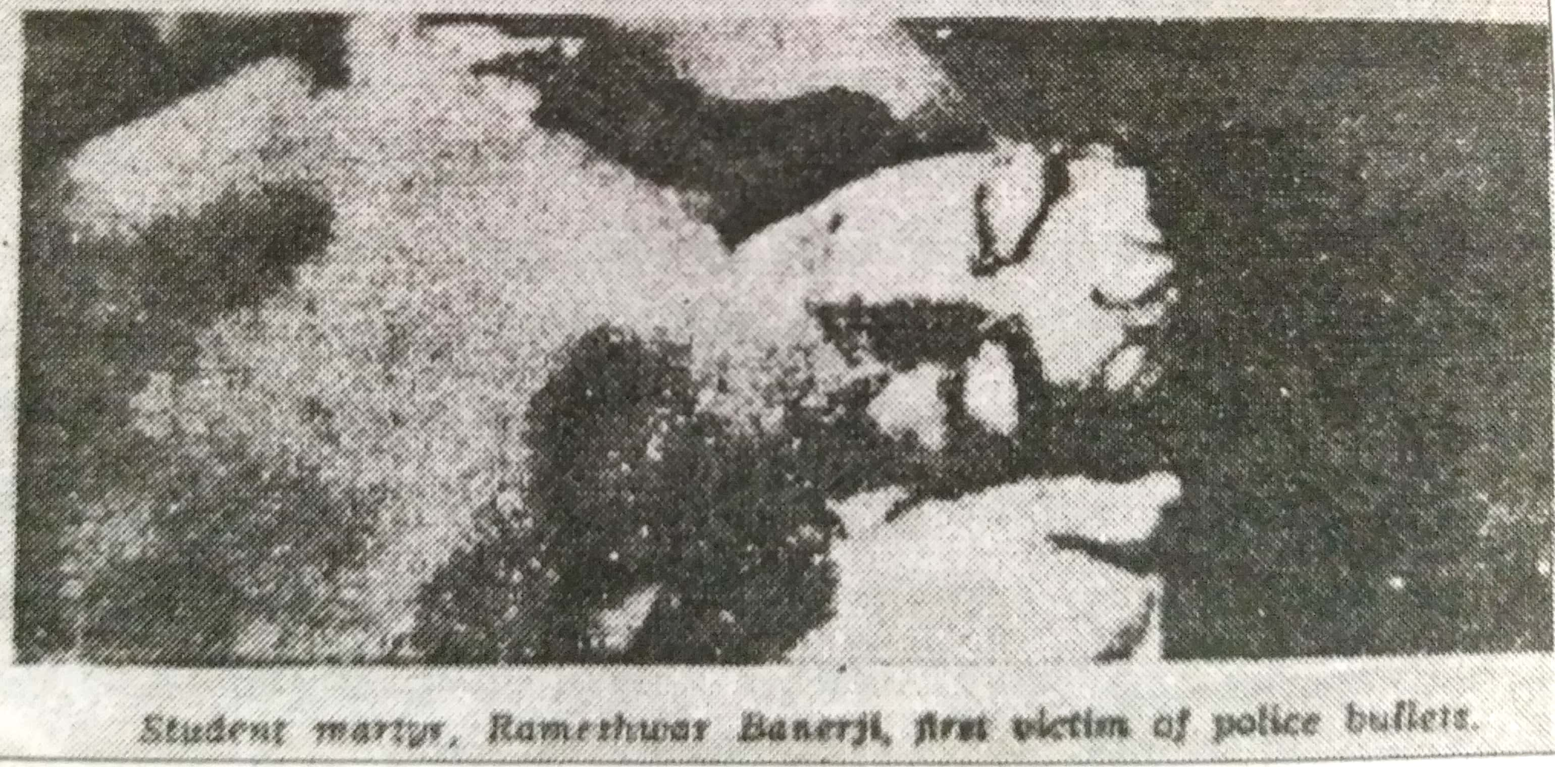 Rameshwar Banerjee Student Martyr. First Victim of the police bullets. During a rally organized by the students against British rule and for release of the officers of Indian National Army, he was killed by police firing. This image is taken from a Indian newspaper published on 22 November 1945.